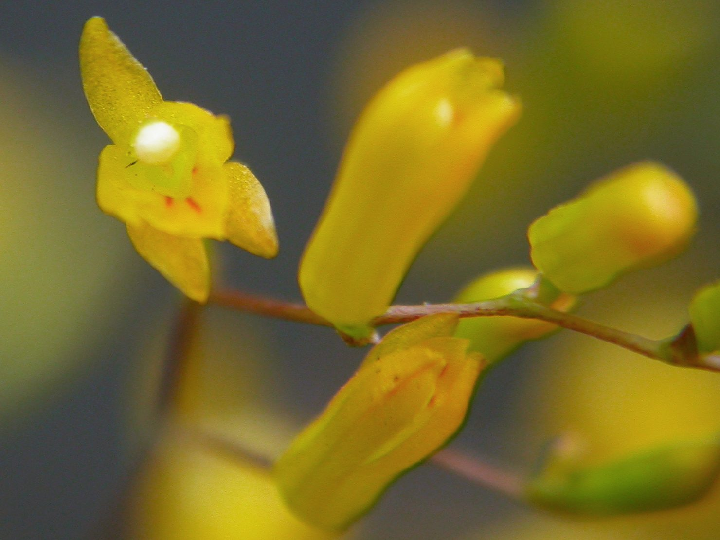 Quekettia papillosa